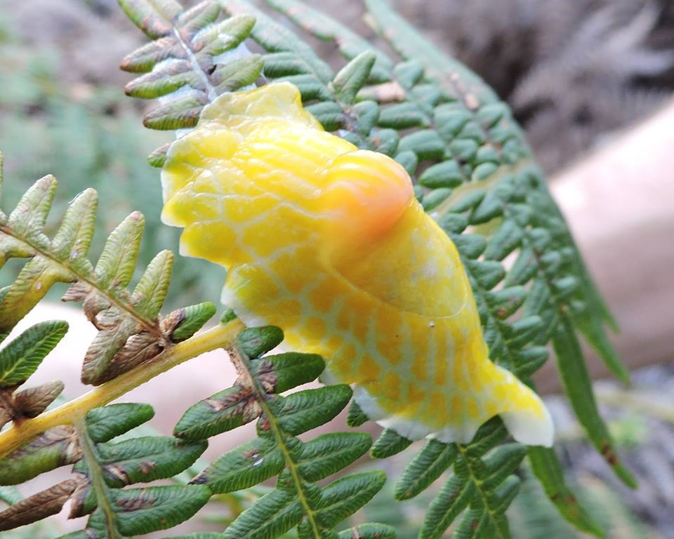 Brazilian ground slug Peltella iheringi. Photograph taken in the municipality of Cunha, São Paulo state, Brazil. 24 June 2018.